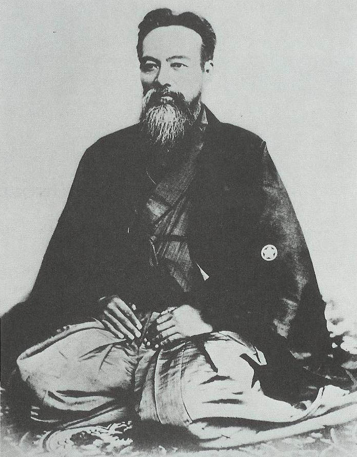 Yamaoka Tesshu